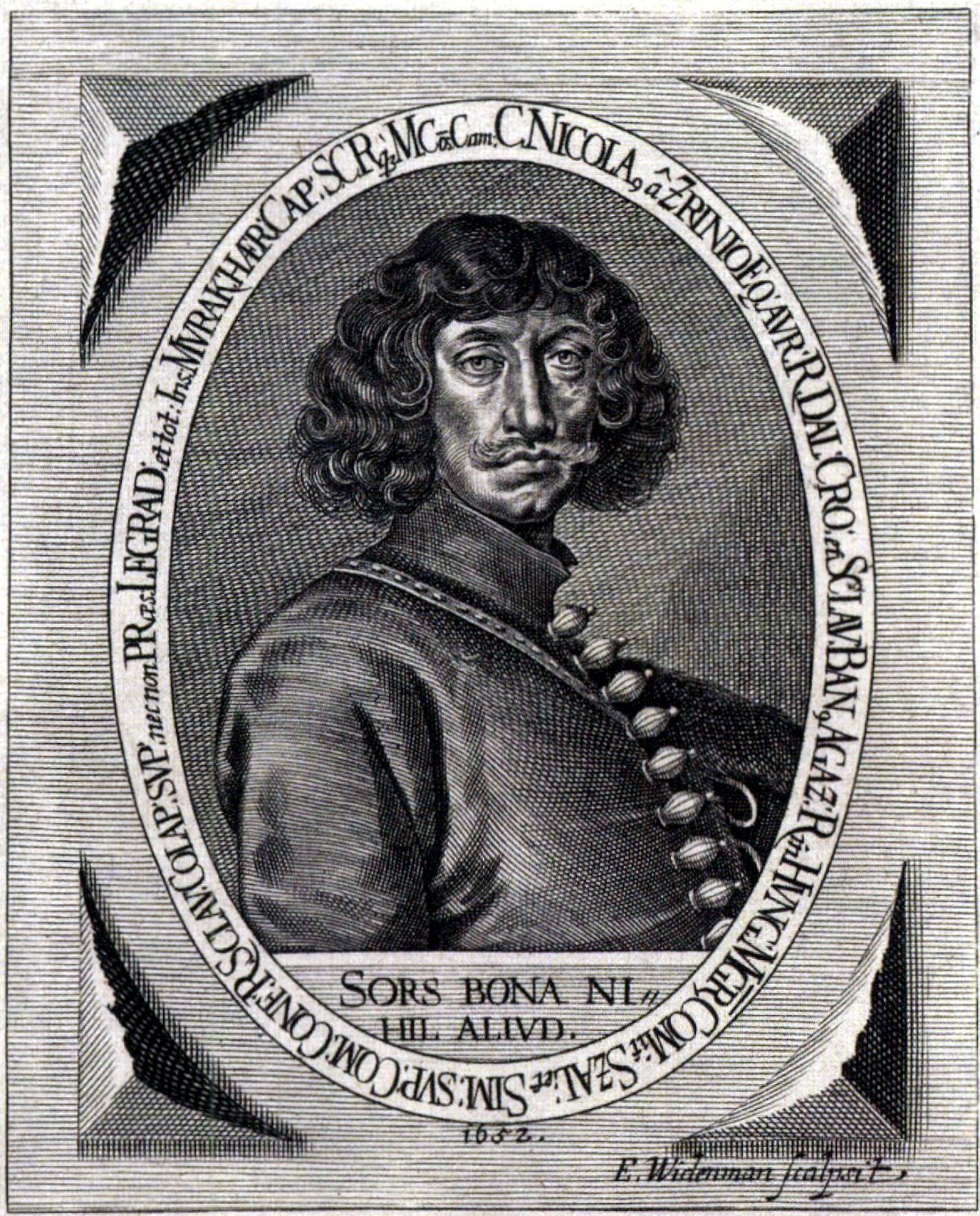 Nicholas Zrinski (1620-1664), Croatian and Hungarian warrior, statesman and poet Elias Wiedemann’s print (Ectipa Heroum 1652)